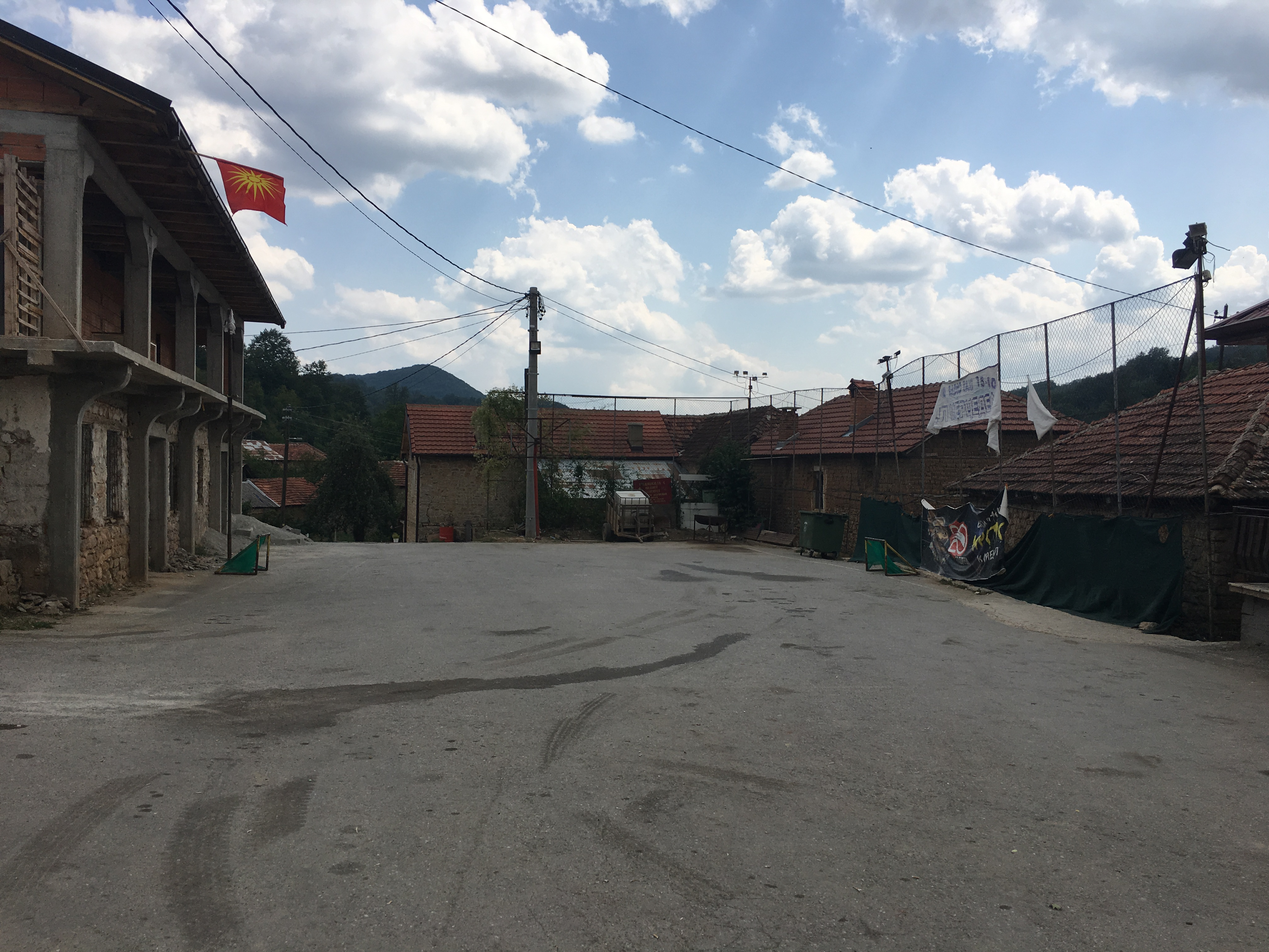 The mid-village of Kuratica